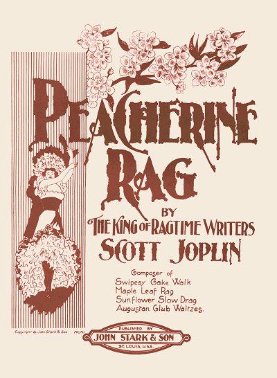 "Peacherine Rag" sheet music cover